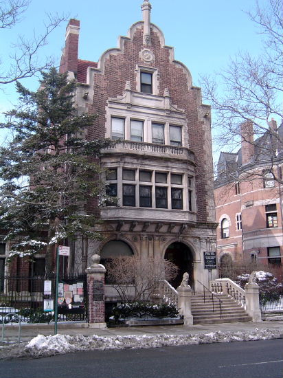 William H. Childs house, designed by architect William Tubby, on Prospect Park West. Photo by me. [Brooklyn Society for Ethical Culture]